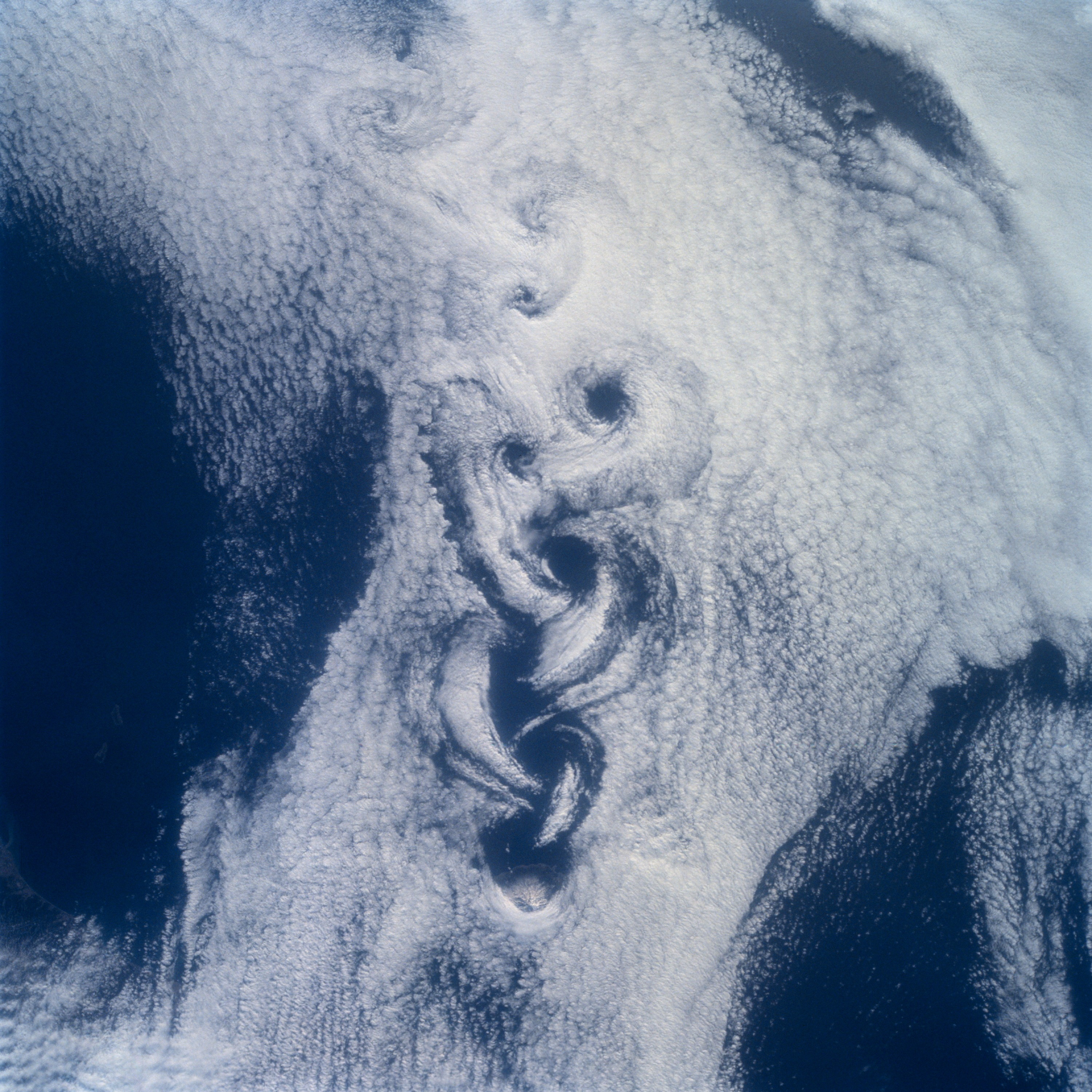 Von Karman vortices off the coast of Rishiri Island in Japan.